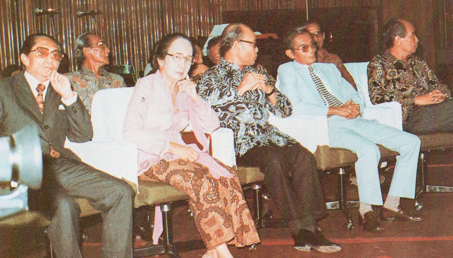 Maria Ulfah Santoso and Sjamsoe Soegito at MMPI meeting at the 1982 Indonesian Film Festival in Jakarta